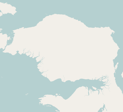 Map of Bird's Head Peninsula, West Papua, Indonesia Geographic limits of the map: N: 0.05° S: -3.15° W: 130.86° E: 134.37°